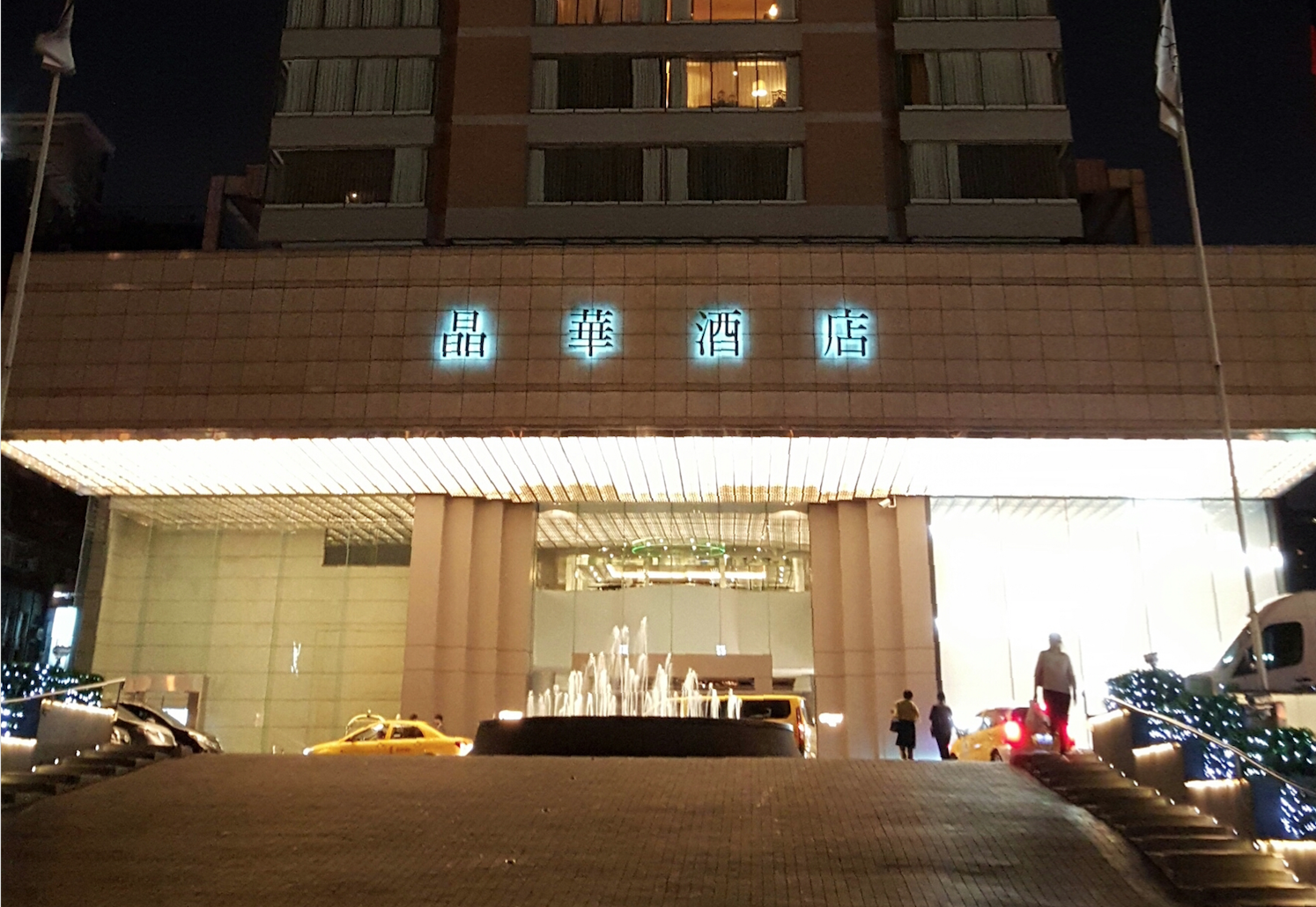 regent taipei lobby